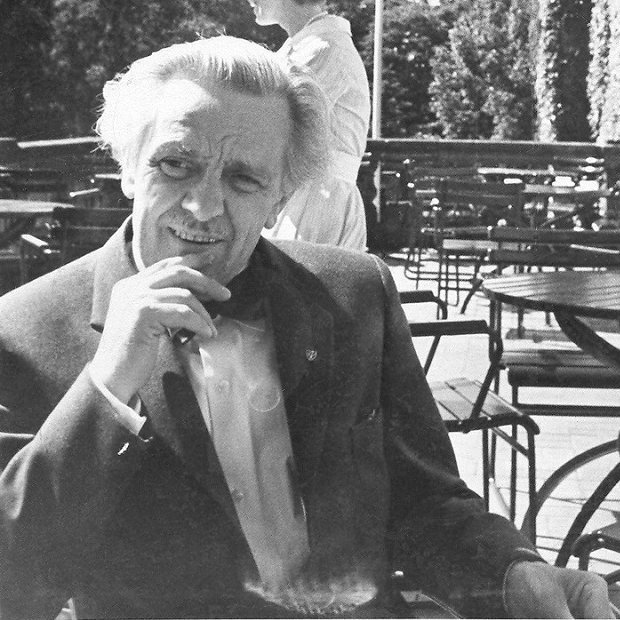 Estonian architect Edgar Velbri